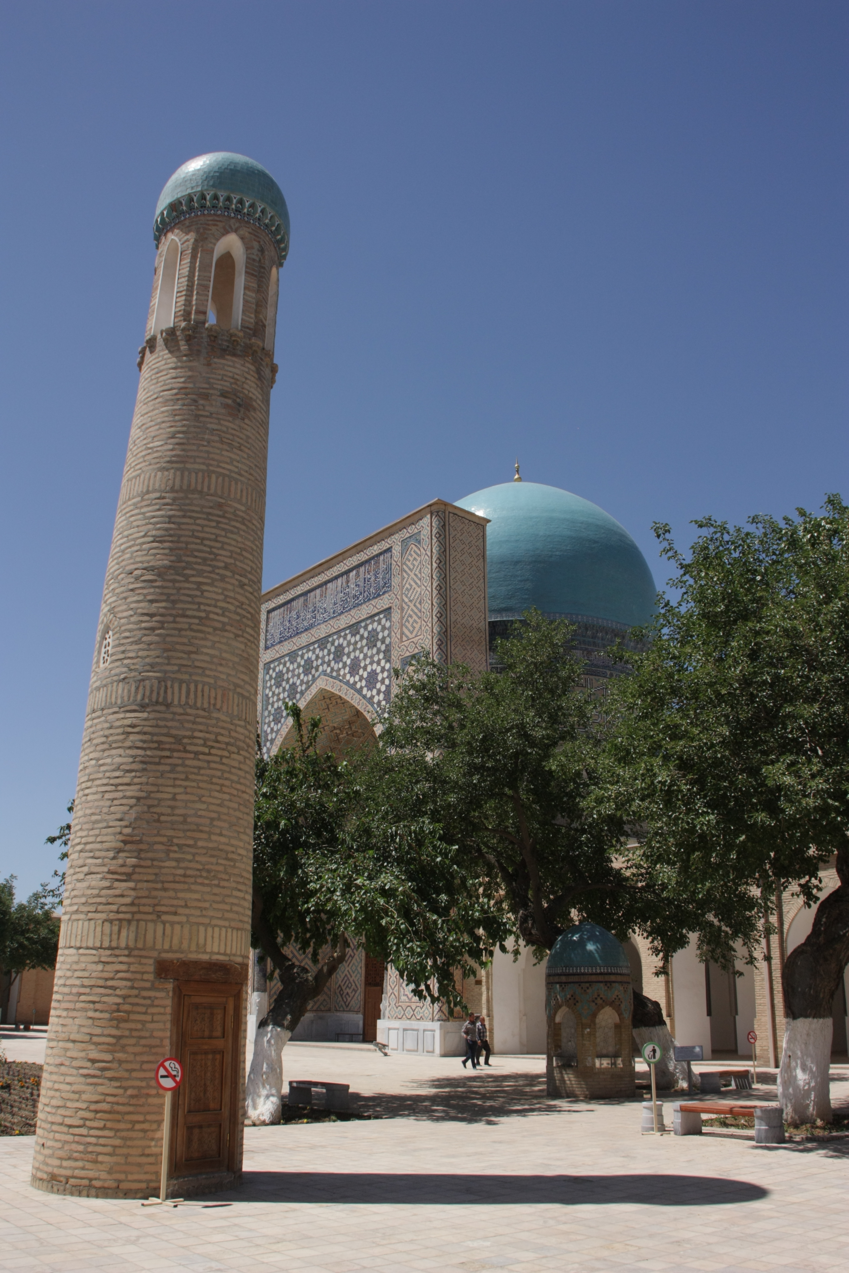 Dorut Tilavat minaret